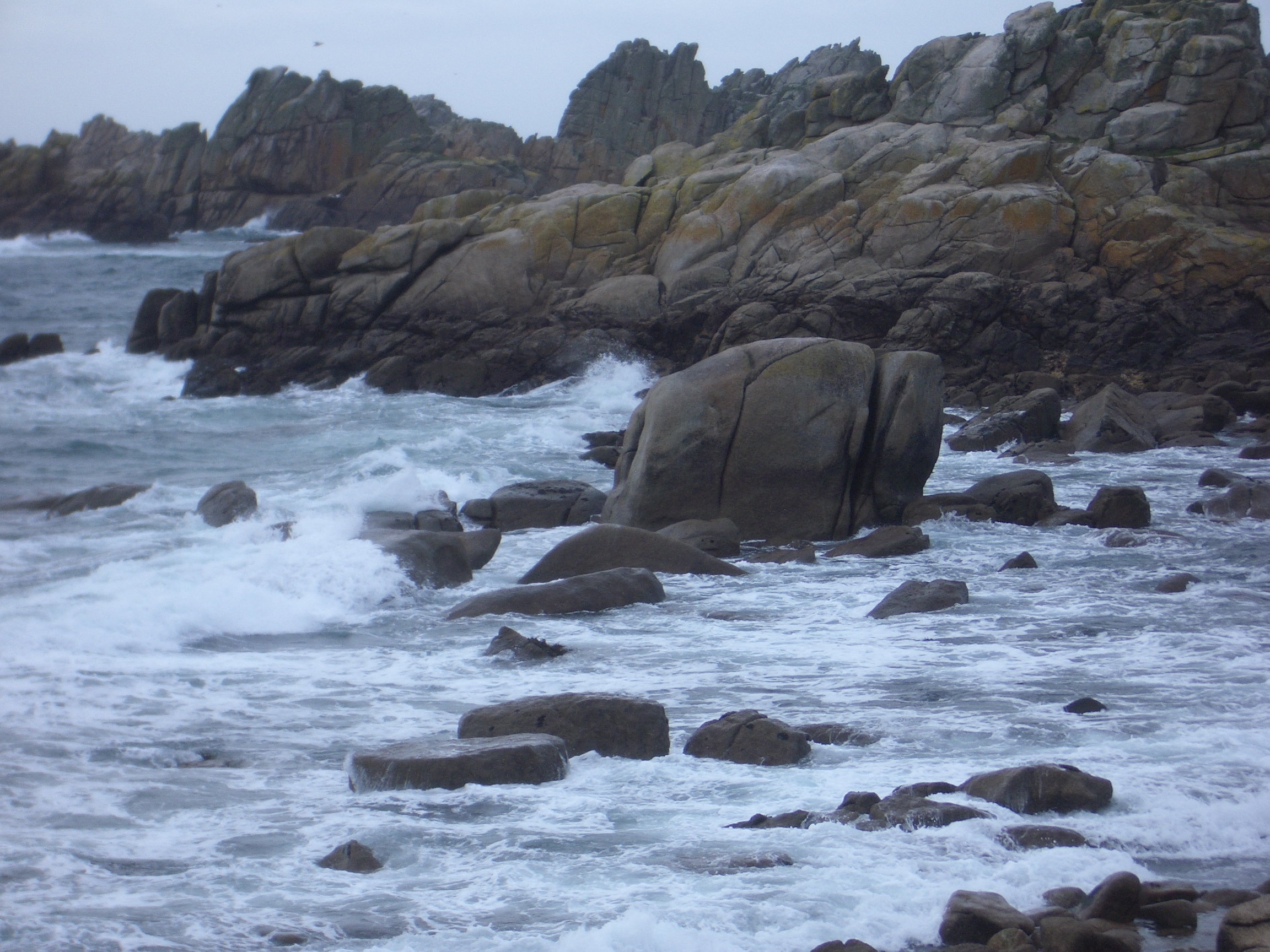 A rock formation on the south west side of St. Agnes, Isles of Scilly that looks like an Elephant.